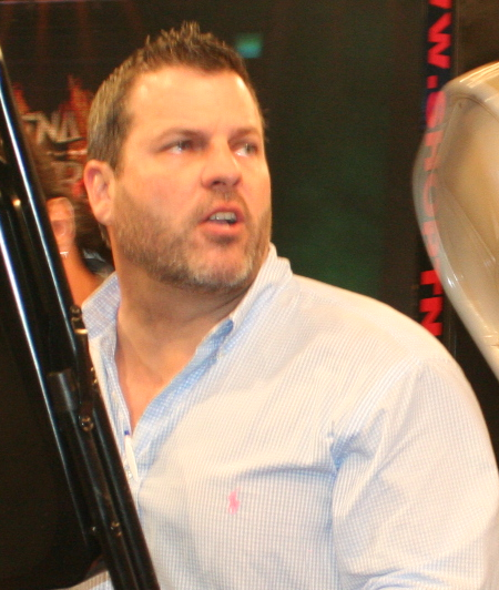 Professional wrestler Simon Diamond in July 2010.